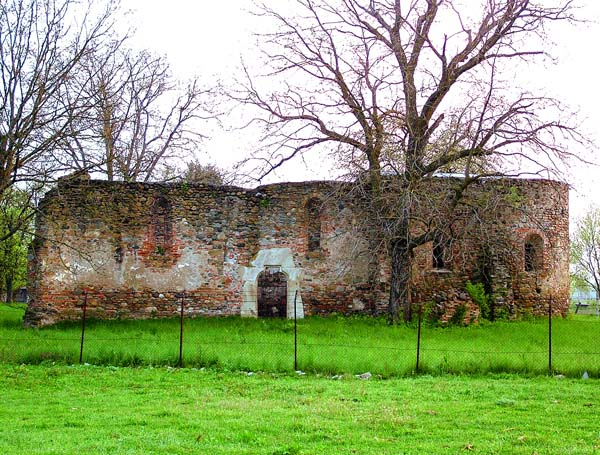 the remains of the church in Marosfelfalu (Suseni, Mureş County, Romania)